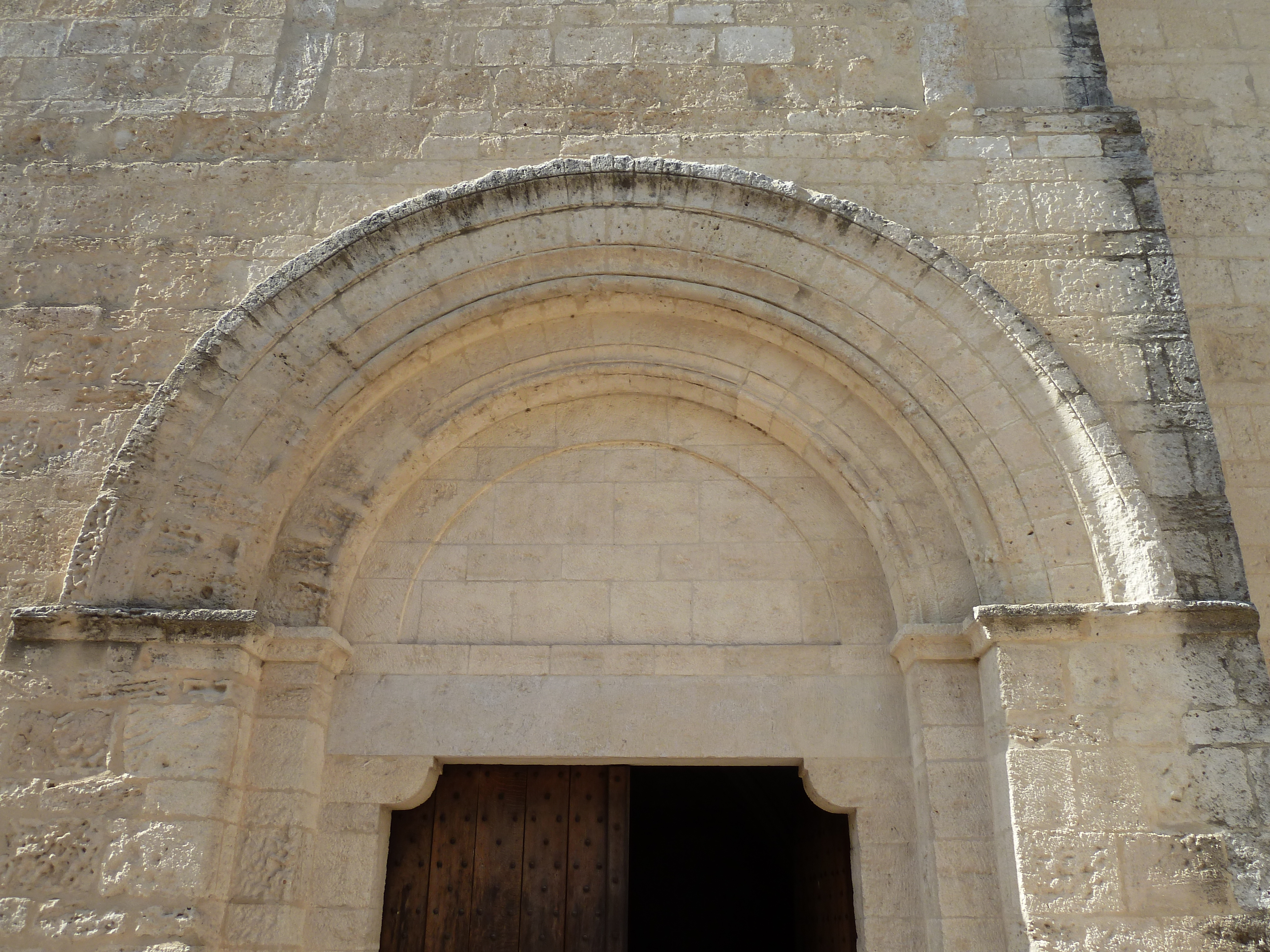 Church of Saint-Jean-Baptiste in Castelnau-le-Lez (vicinity of Montpellier, France). South side. Main portal. Tympanum.